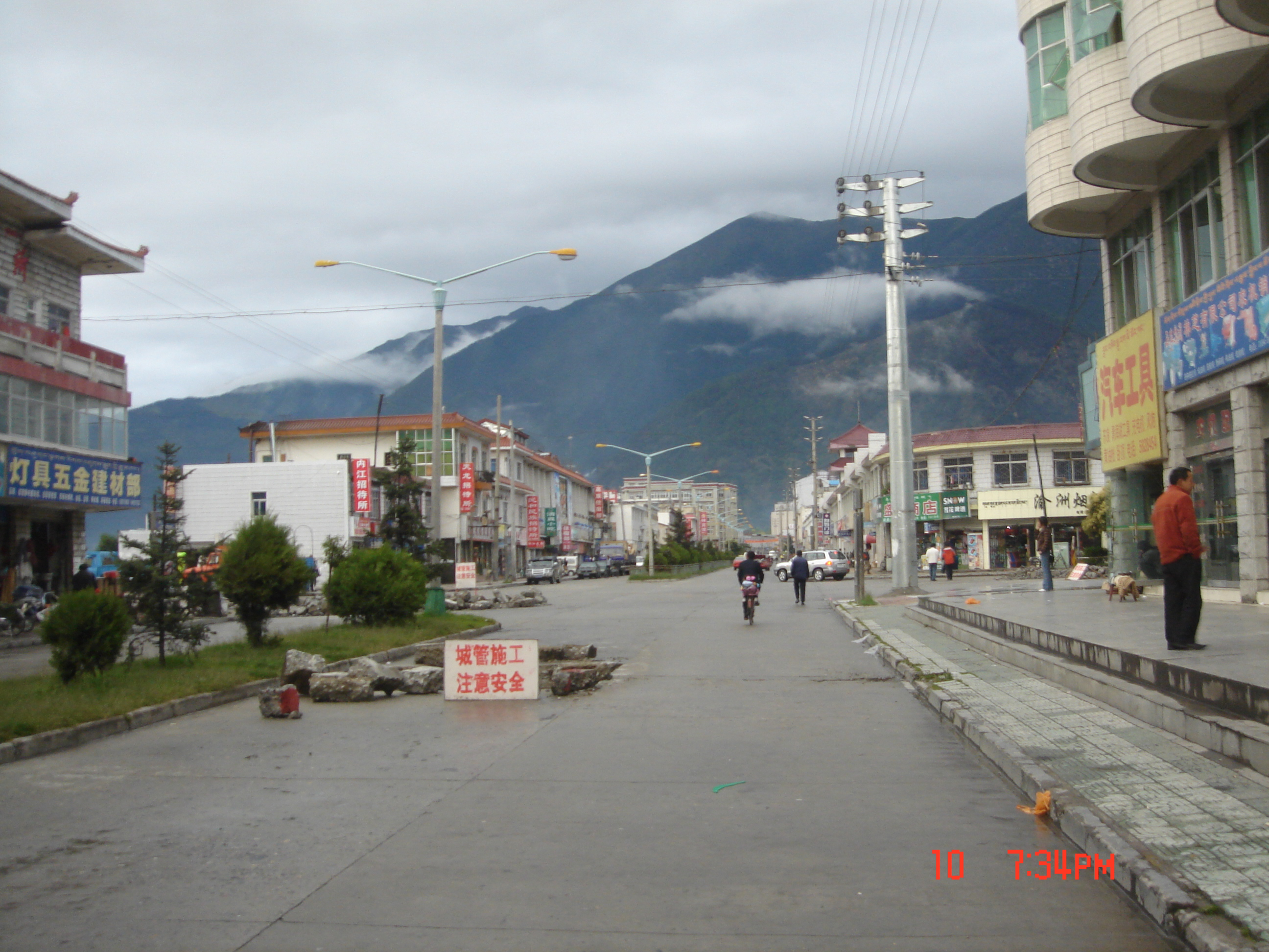 Bayi Town, Tibet